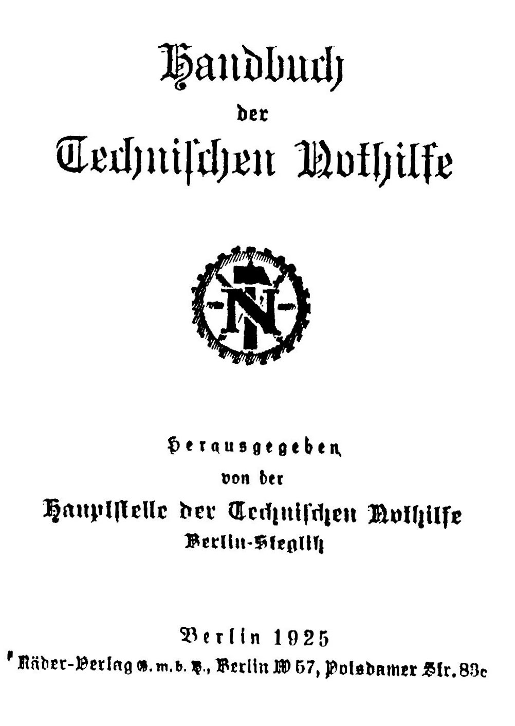 Handbook of the "Technischen Nothilfe"